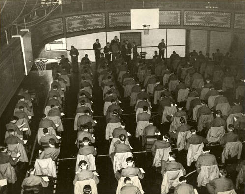 Early photo the Old Gym (Washington & Jefferson College) at Washington & Jefferson College.